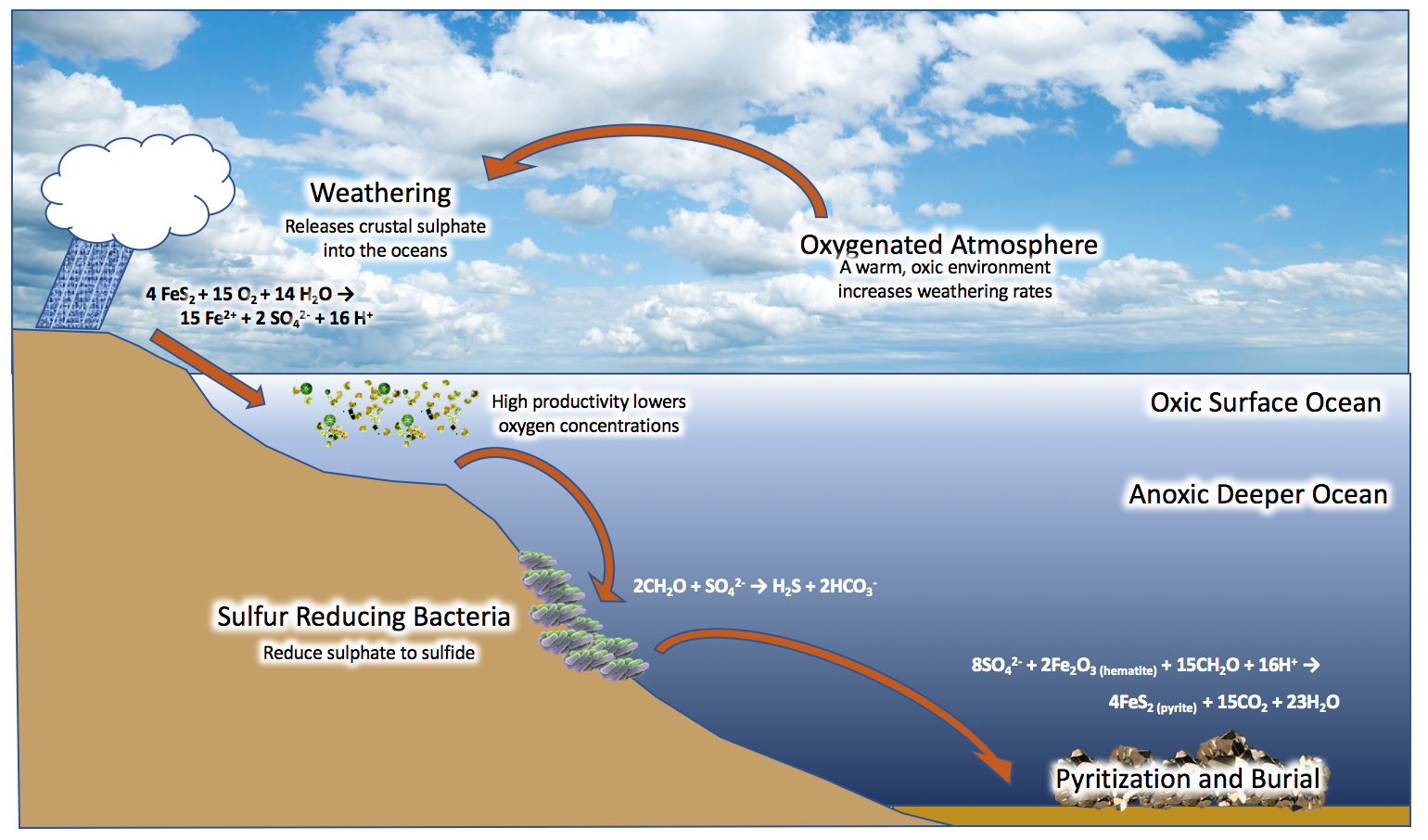 Diagram of how it is hypothesized deep ocean euxinia formed in the ancient oceans